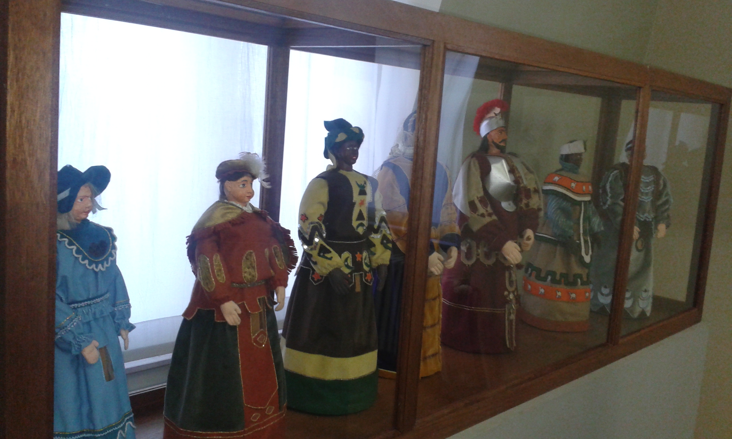 miniatuurversies van de Duffelse reuzen; gemeentelijk museum 'Het Gasthuis'